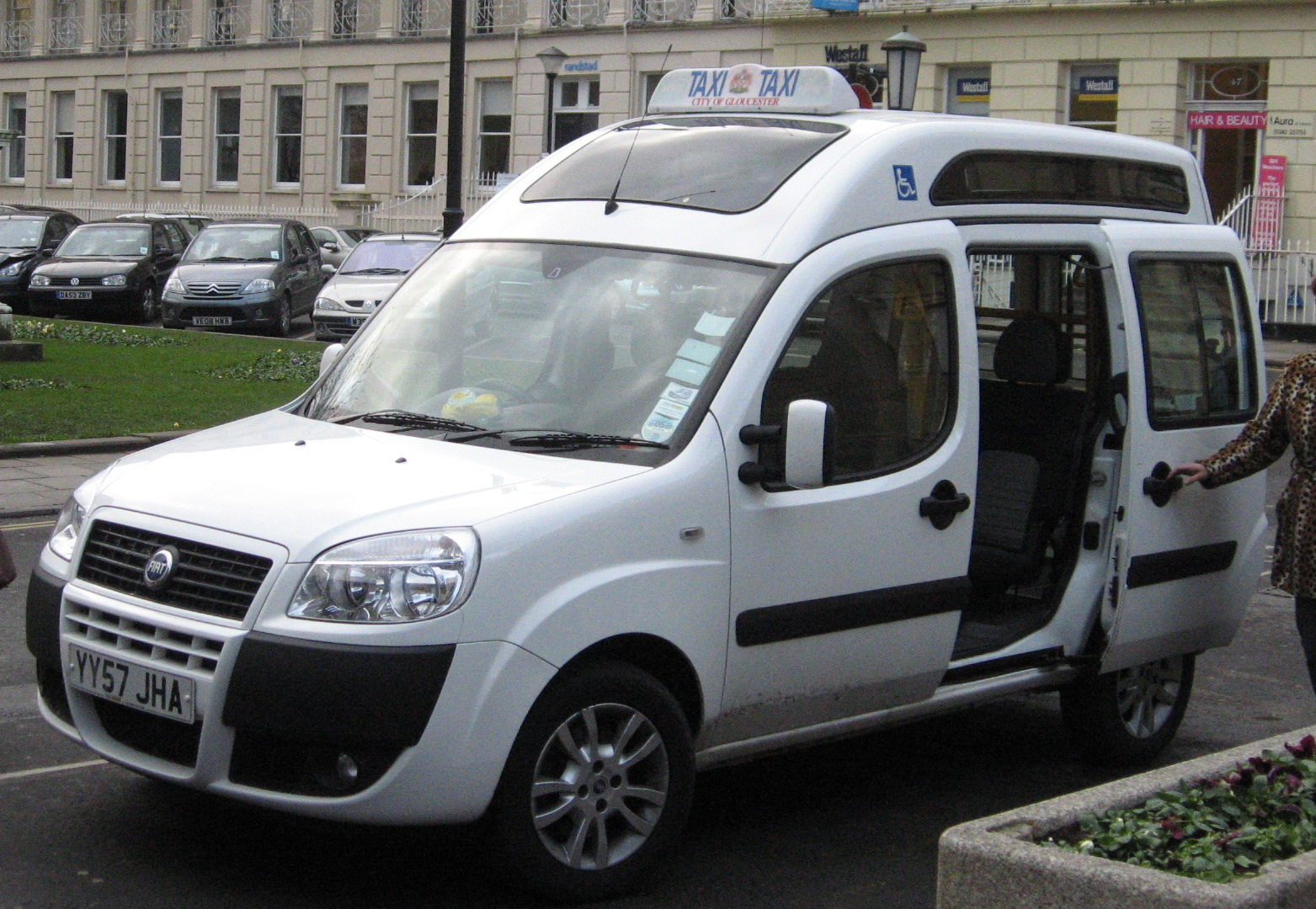 Wheelchair adapted Fiat Doblò facelift taxi in Cheltenham, UK.